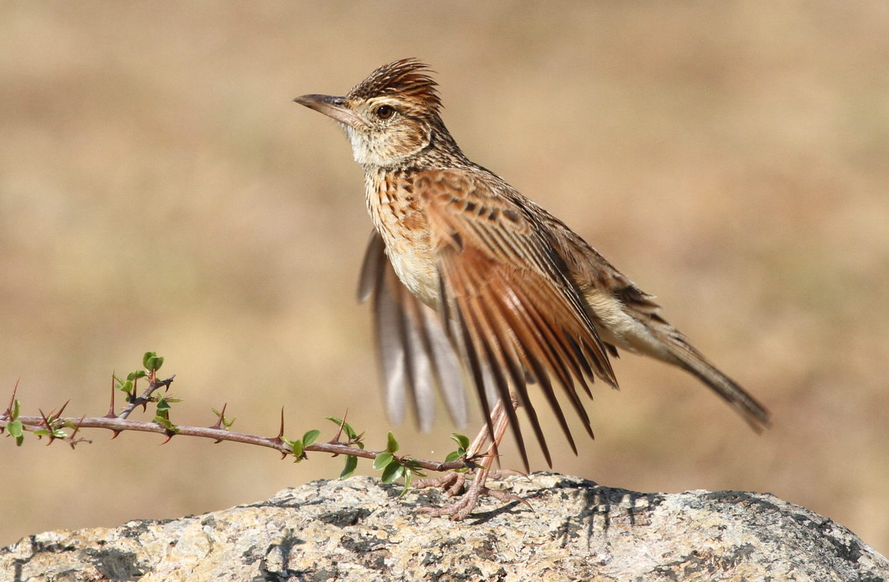 Rufous-naped Lark, Mirafra africana at Pilanesberg National Park, South Africa